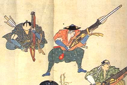 A Japanese Edo period wood block print showing a gunner firing a hiya-zutsu (flame arrow gun) loaded with a bo-hiya (Japanese fire arrow).